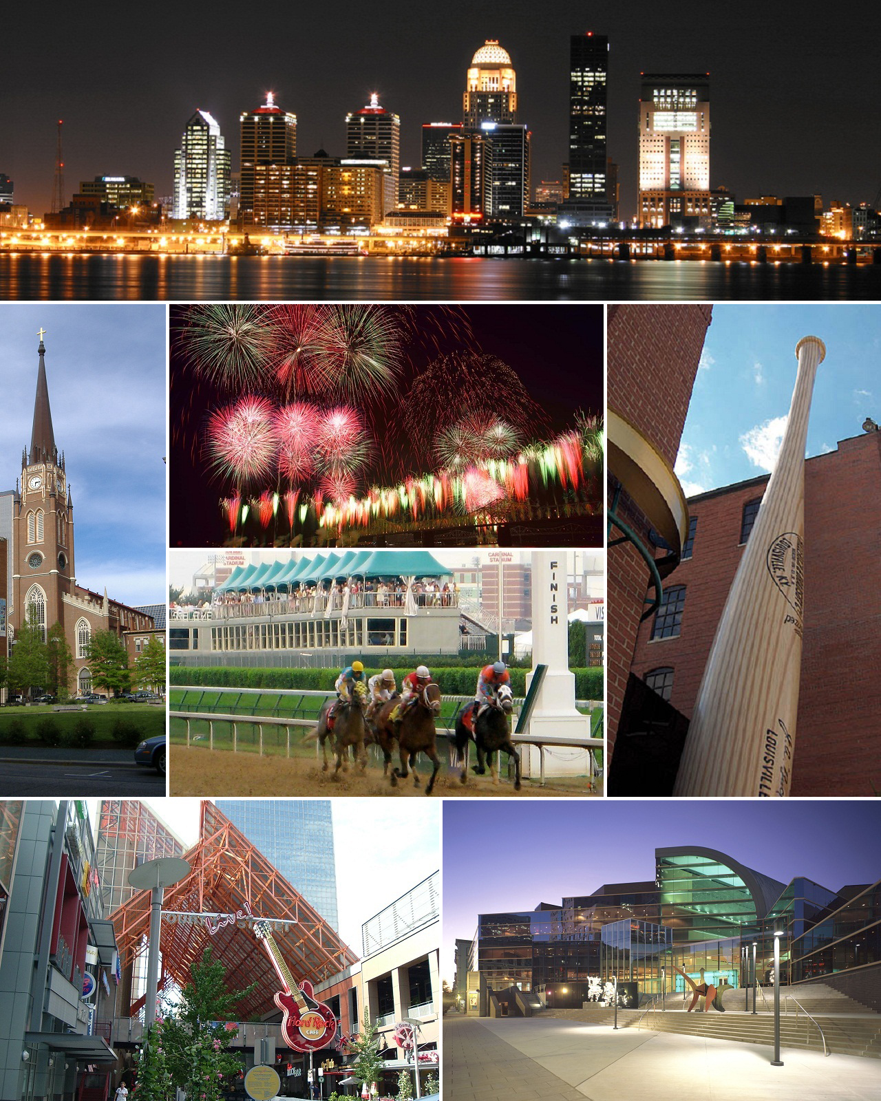 Montage of Louisville Ky